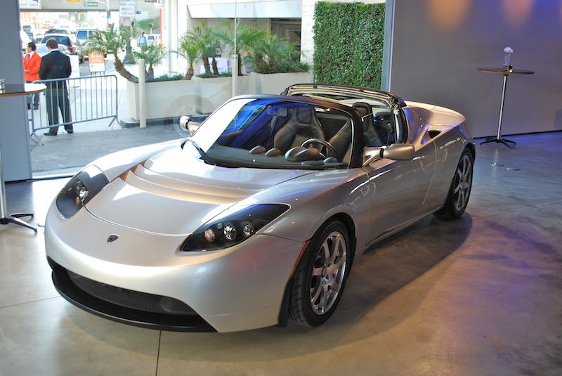 Tesla Roadster electric car, Los Angeles, Calif